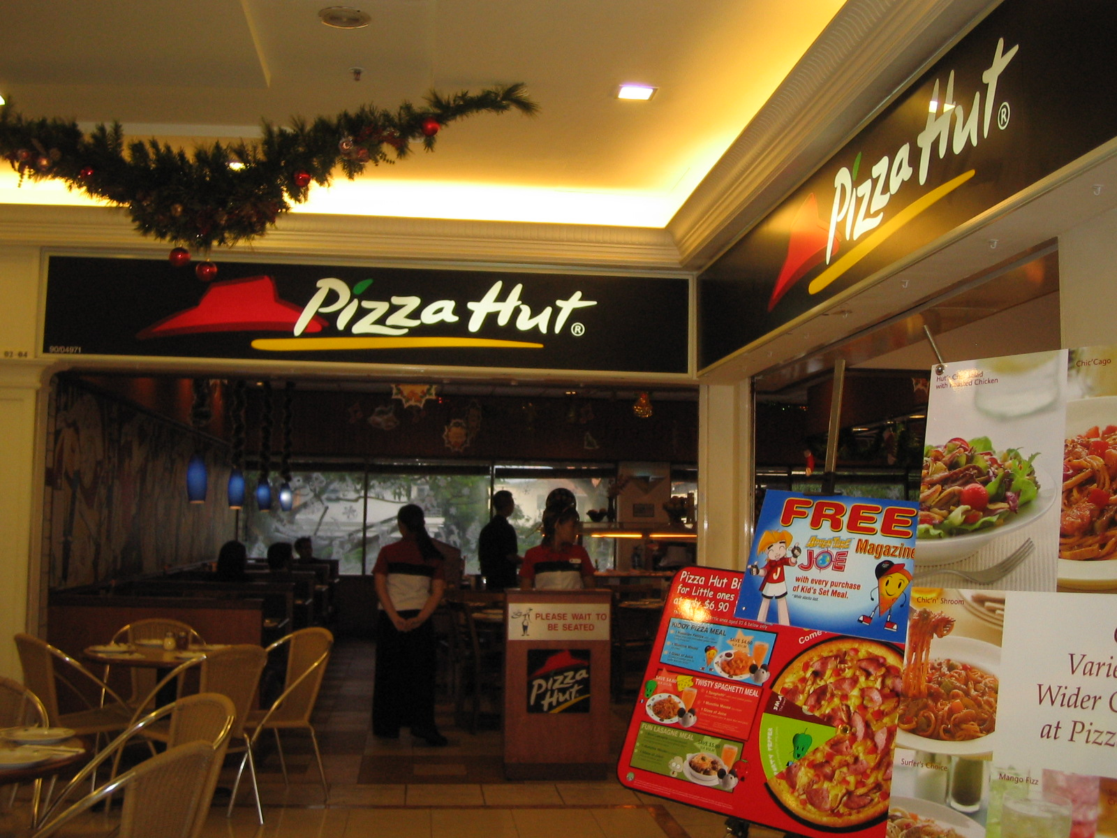 A Pizza Hut restaurant at Cold Storage Jelita Shopping Centre, Singapore.